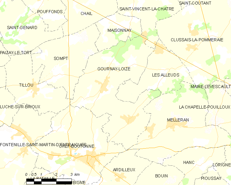 Map of French municipality Gournay-Loizé